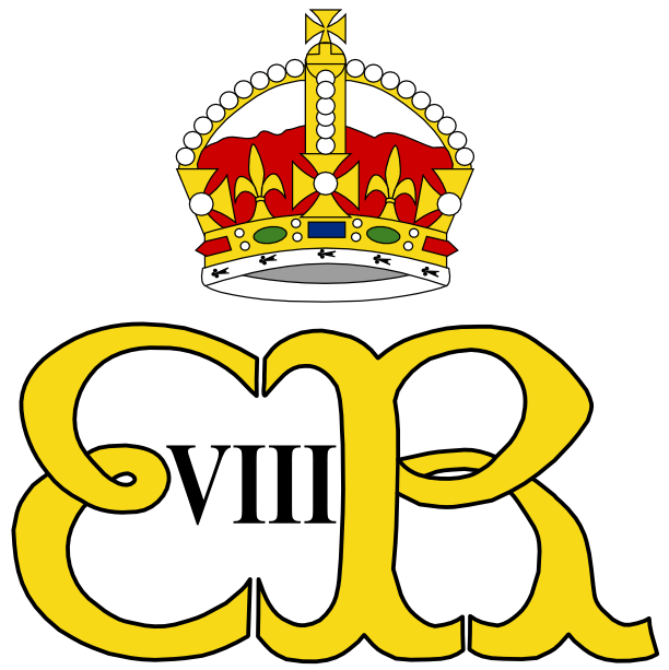 Royal Cypher of Edward VIII.